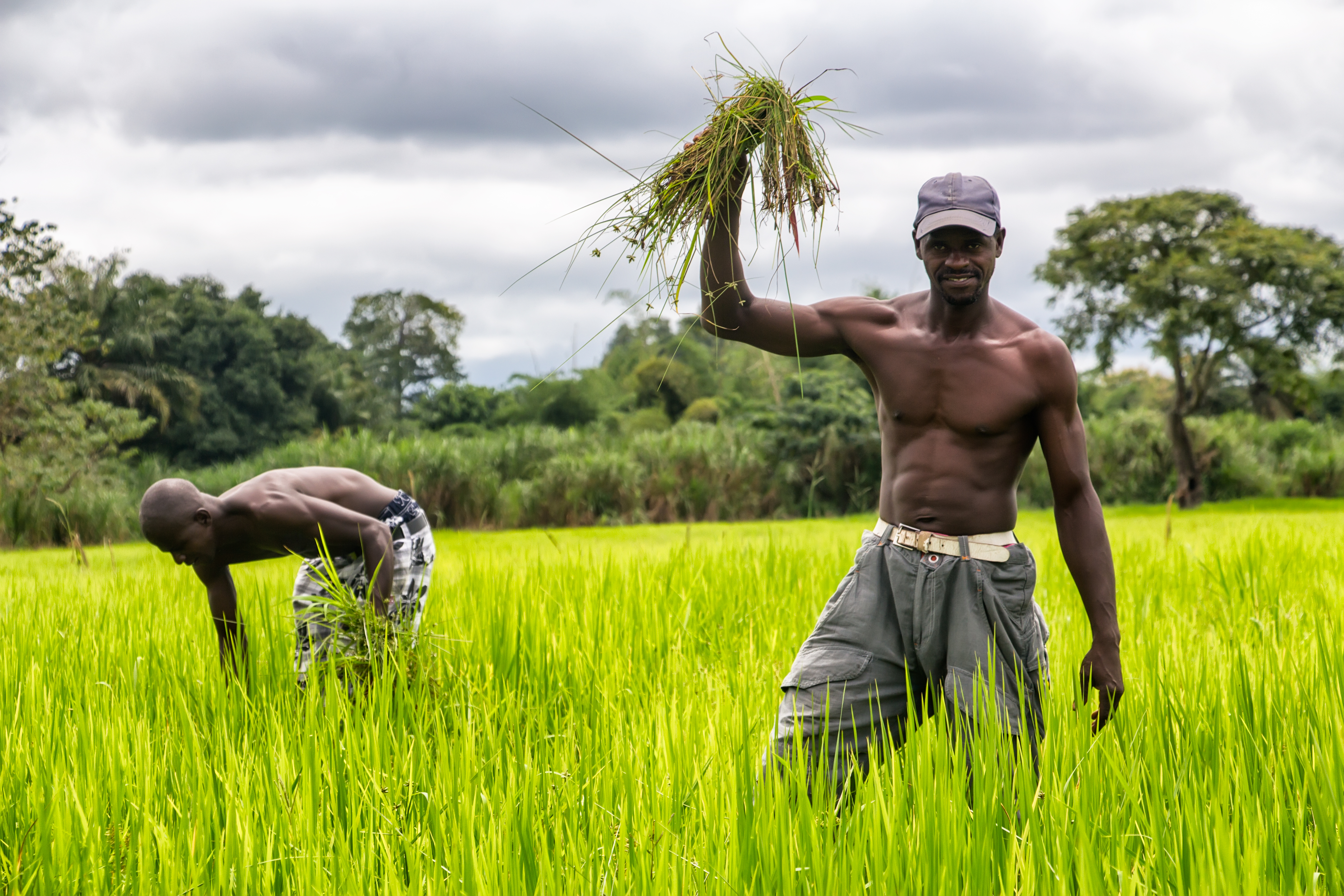 on y est This is an image of "African people at work" from Guinea